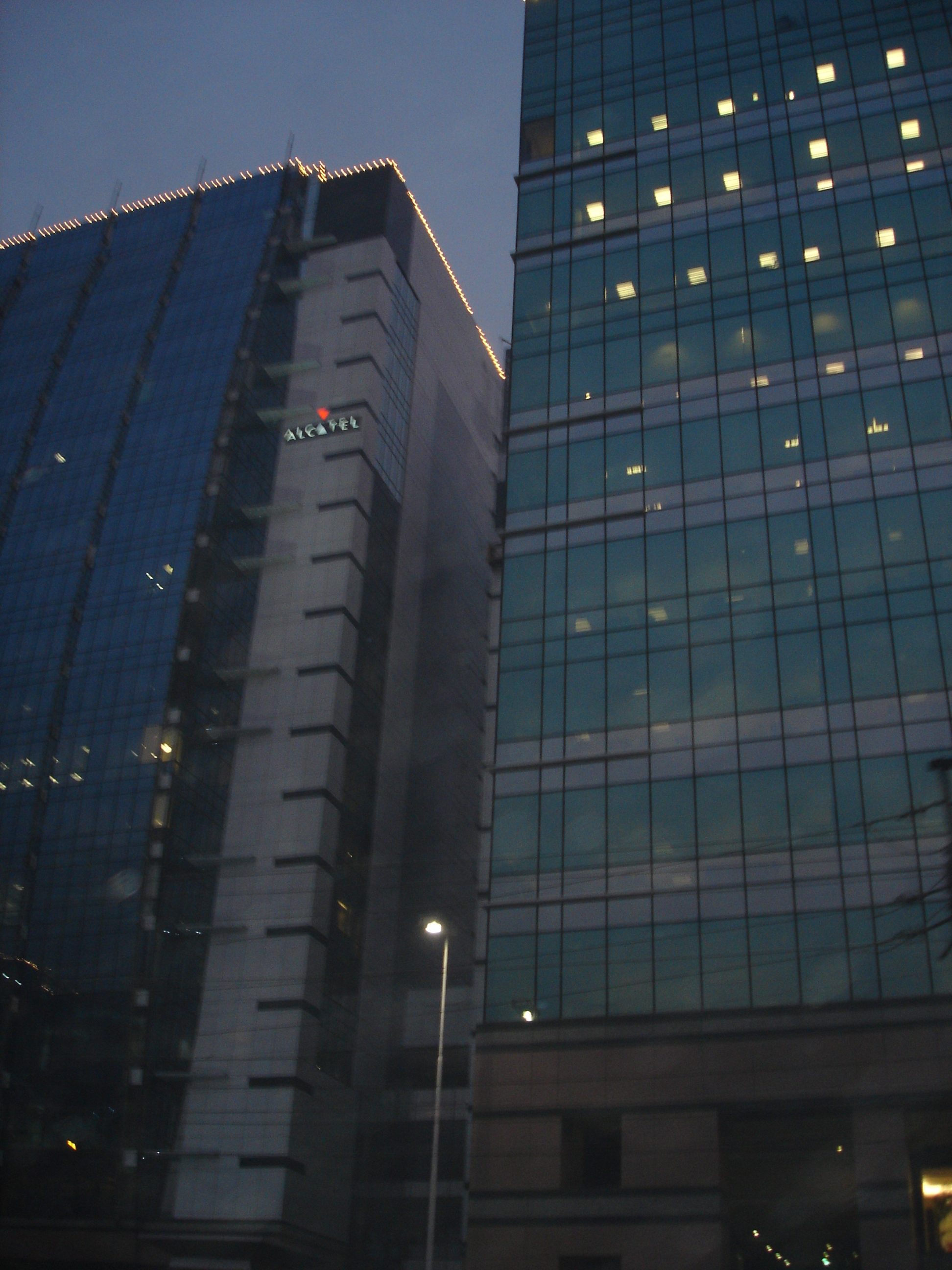 Commercial buildings in Gurgaon